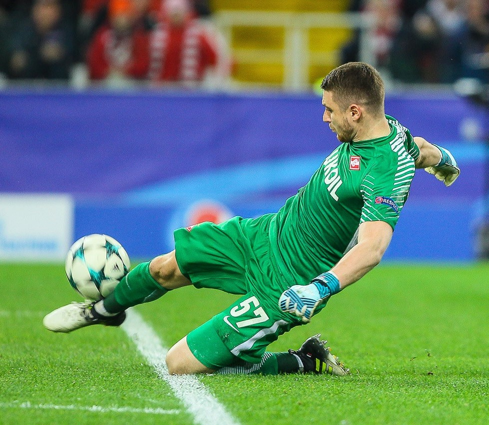 Aleksandr Aleksandrovich Selikhov